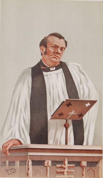 Caricature of Canon Robert Eyton. Caption read "a fashionable Canon".